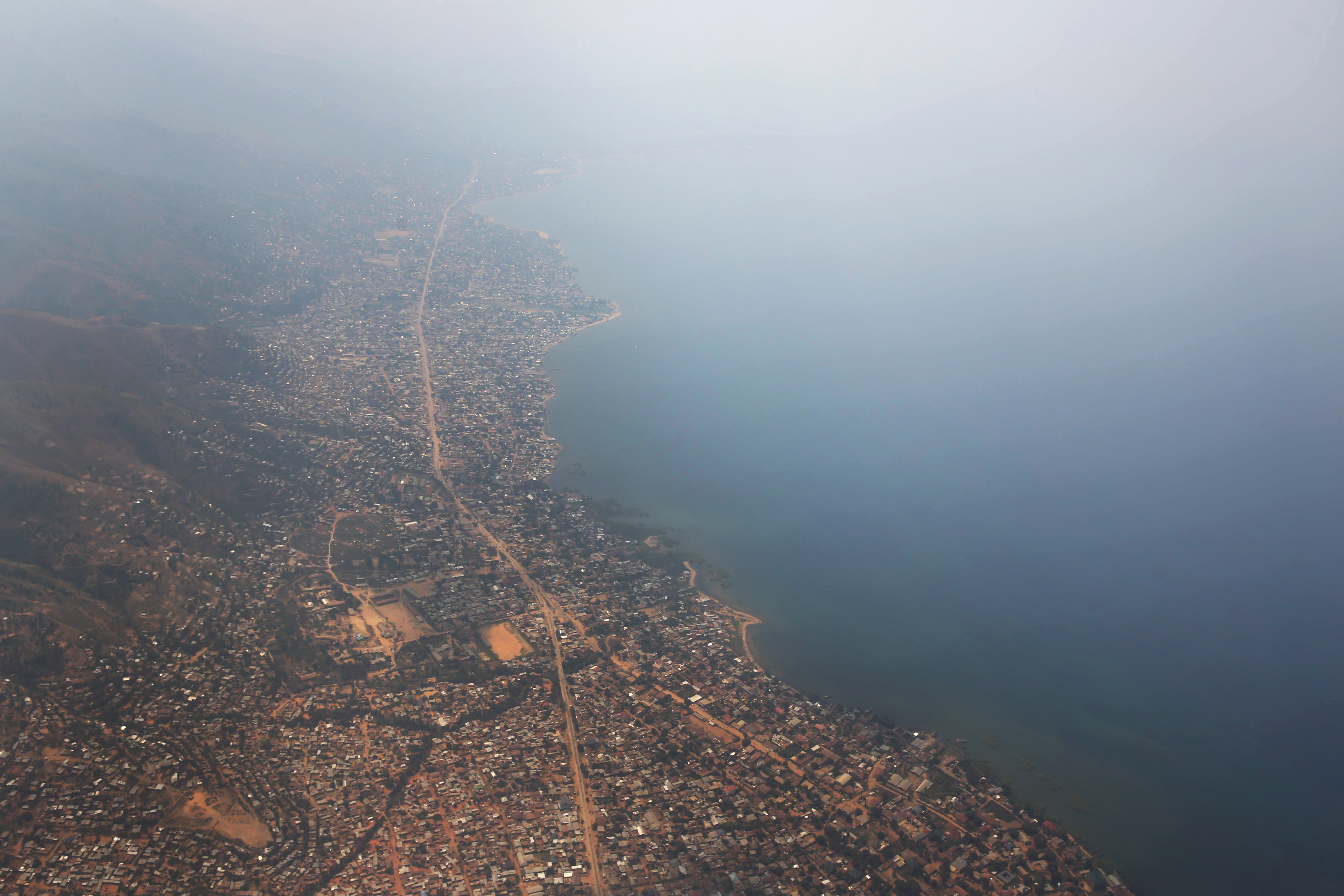 Uvira, Rep. Congo